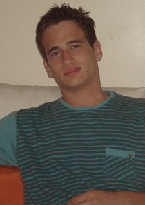 Guilherme Vieira